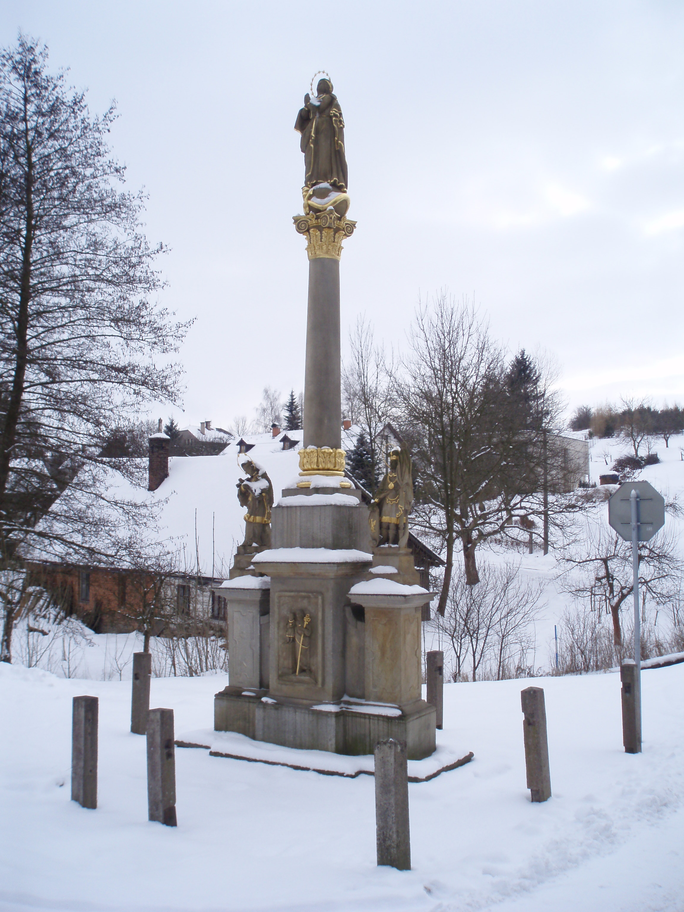 Plague column in Slatina nad Úpou (Czech Republic)